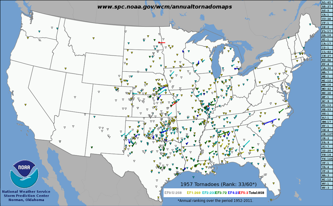 Track of every U.S. tornado from 1957.